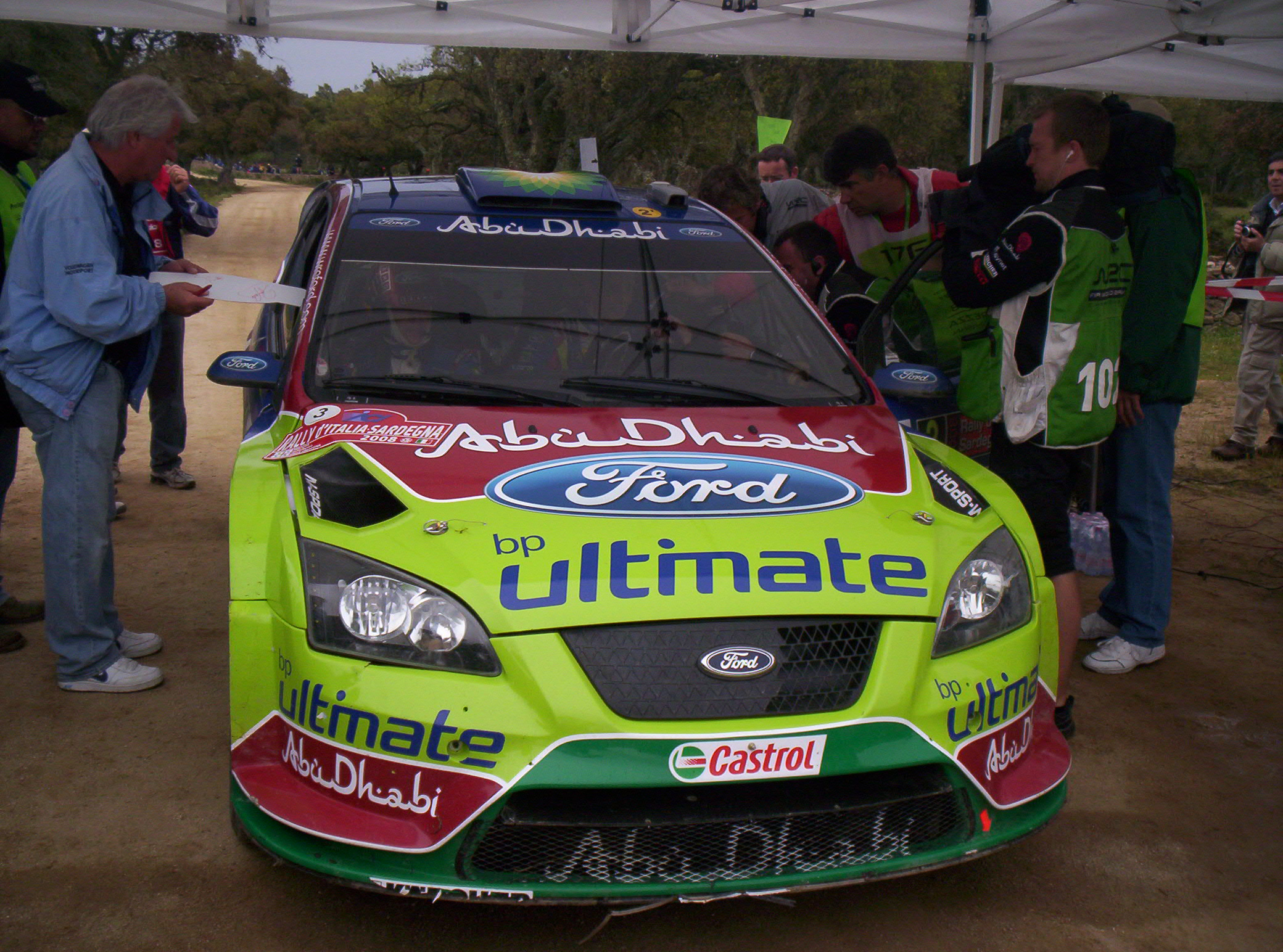 Mikko Hirvonen at Rally Italy-Sardinia, Second Day, SS Punta Pianedda.